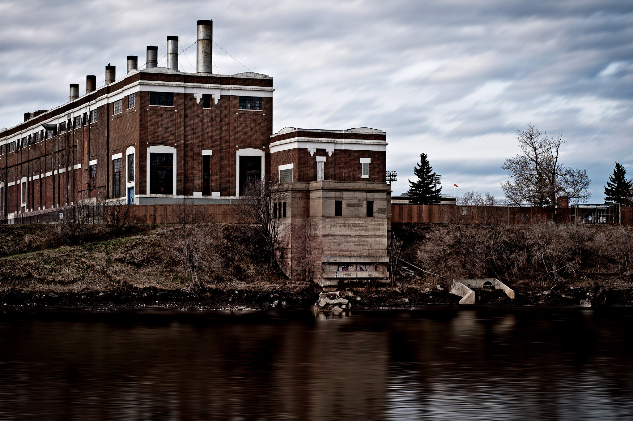 500px provided description: This is the old Walterdale Power Plant in downtown Edmonton. I finally got my butt back outside to take some photos. +22C how I love you! This old power plant is no longer functioning and the city is debating it's future. I have been a long advocate of tearing it down and building something useful in this space. I love taking pictures in this area and more often then not this ugly power plant has gotten itself in the way of a beautiful skyline shot. Today I managed to see it from a different angle and now feel that I have managed to capture it's more attractive side. If the city was to put some effort into cleaning up the river bank and making the building more visible it might be worth keeping. The have started work on the new bridge which will be build just to the left so maybe, just maybe they might clean up the area. [#canada ,#river ,#north ,#plant ,#photo ,#edmonton ,#power ,#alberta ,#david ,#saskatchewan ,#waddington ,#2013 ,#walterdale]